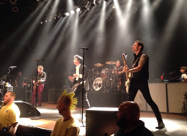 Green Day at the House of Blues in 2015